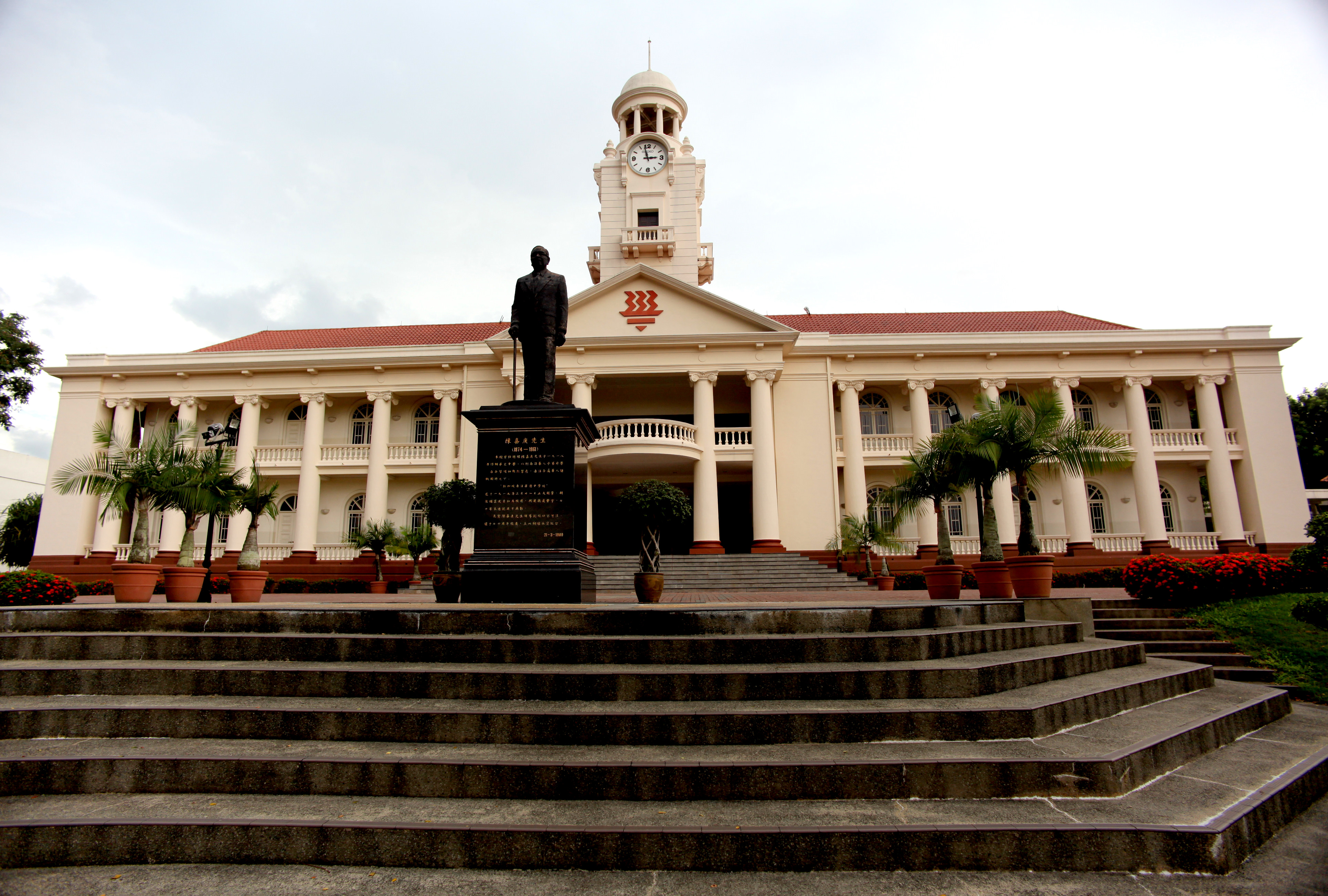 The Chinese High School Clock Tower Building, part of Hwa Chong Institution in Singapore.